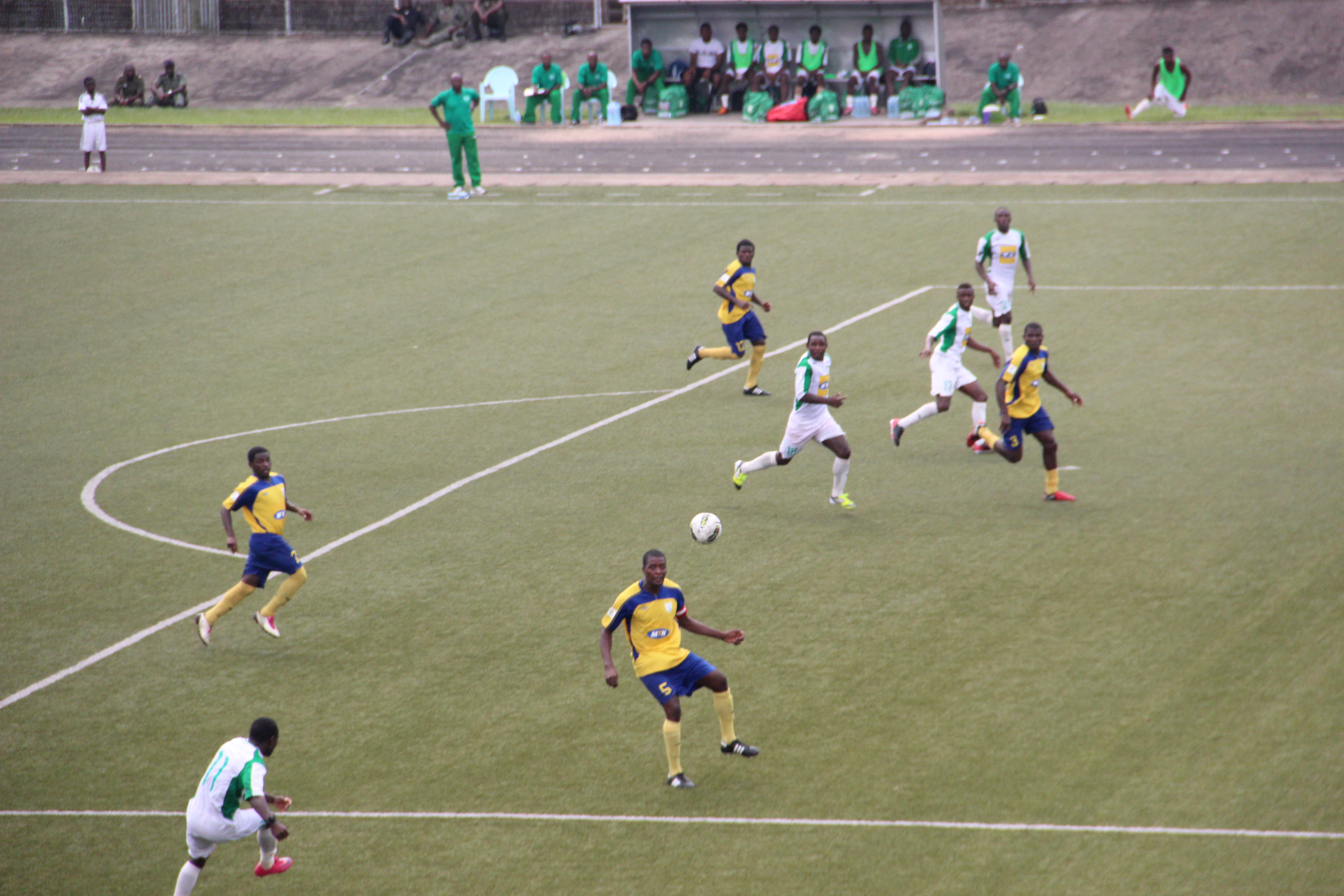 Elite One — 24 February 2013, Stade de la Réunification, Douala. Match between: Union Douala — Sable FC But de Douala.